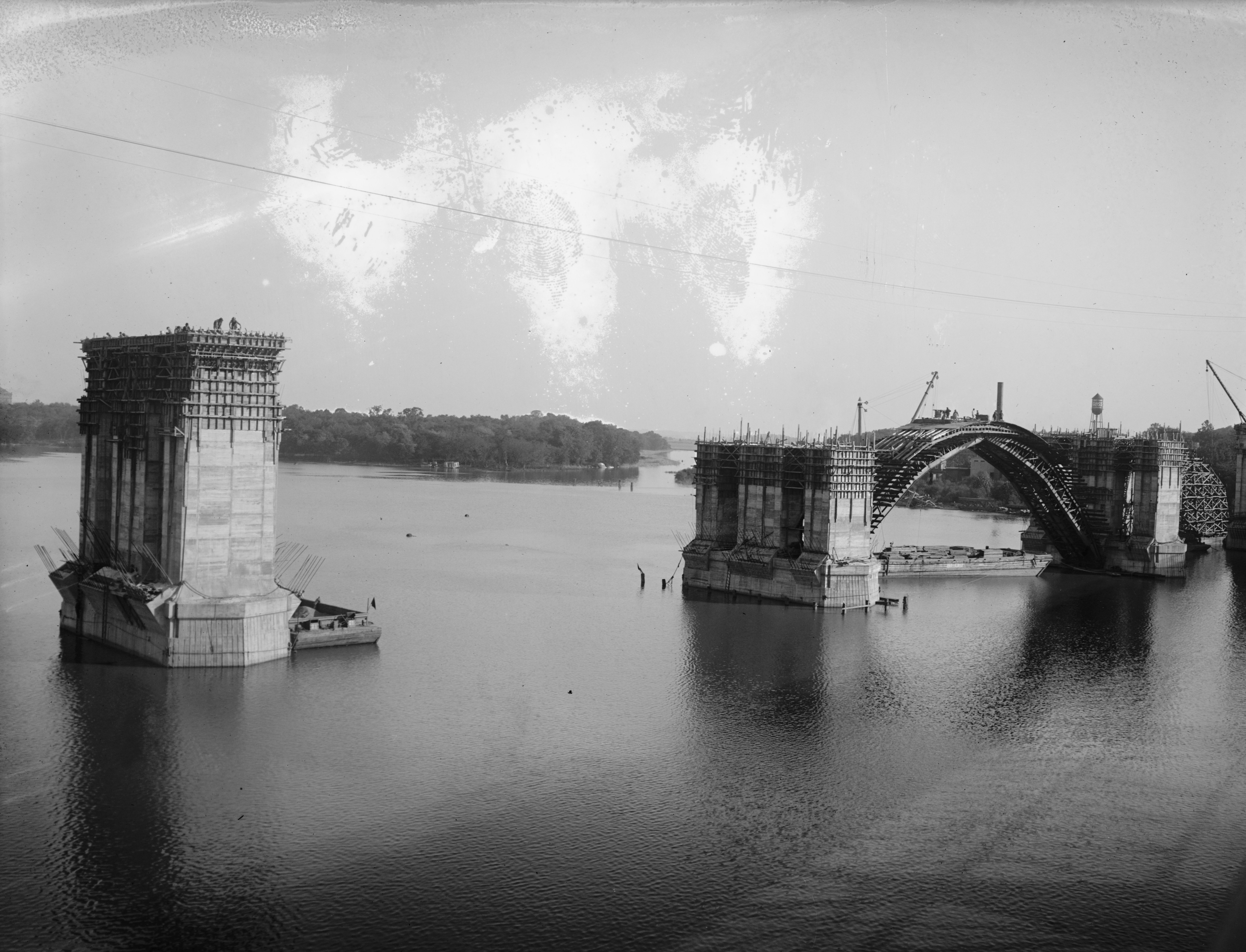 Title: Key Bridge Abstract/medium: 1 negative : glass ; 8 x 6 in.